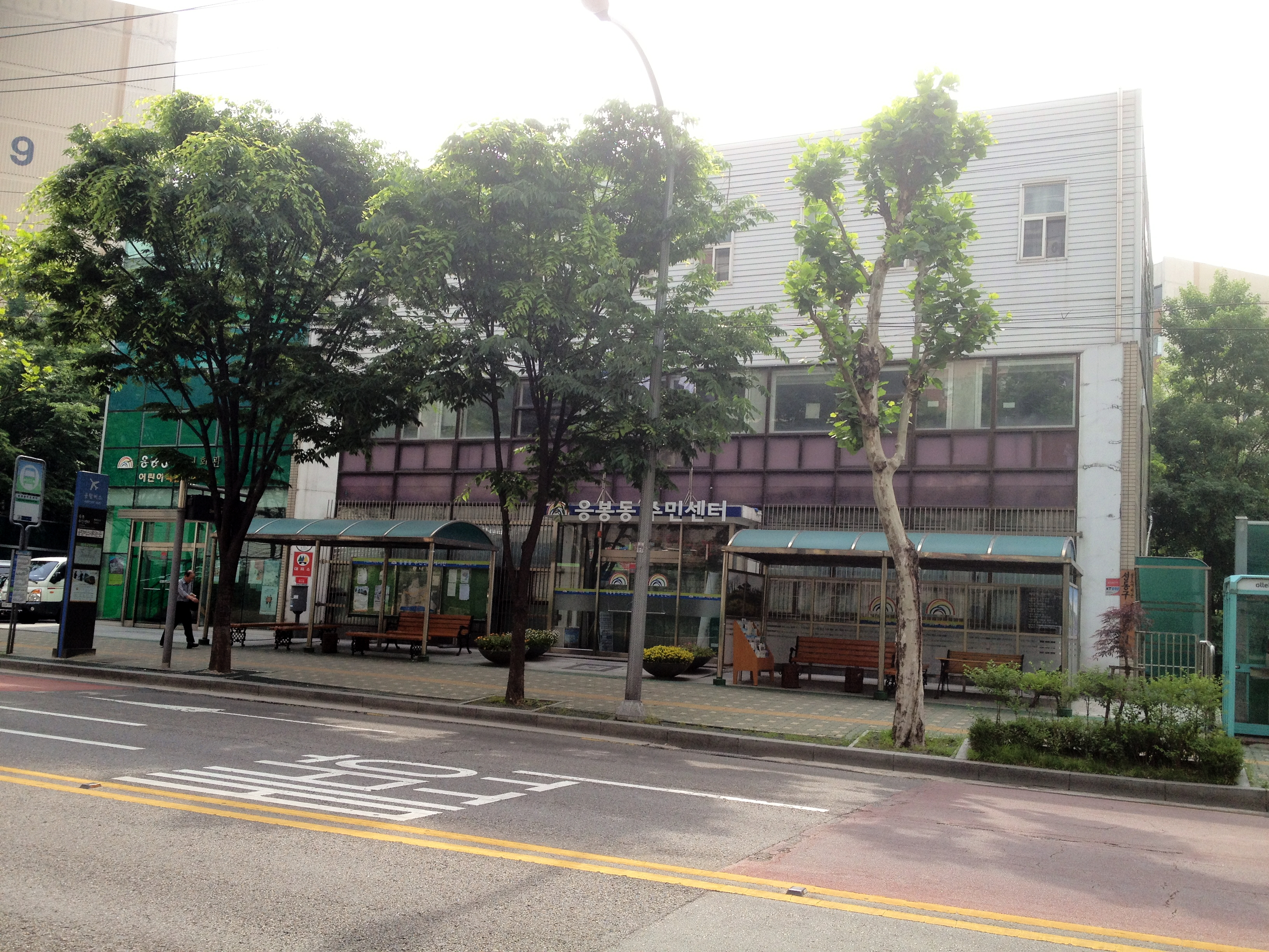 Eungbong-dong Comunity Service Center(Seongdong-gu)